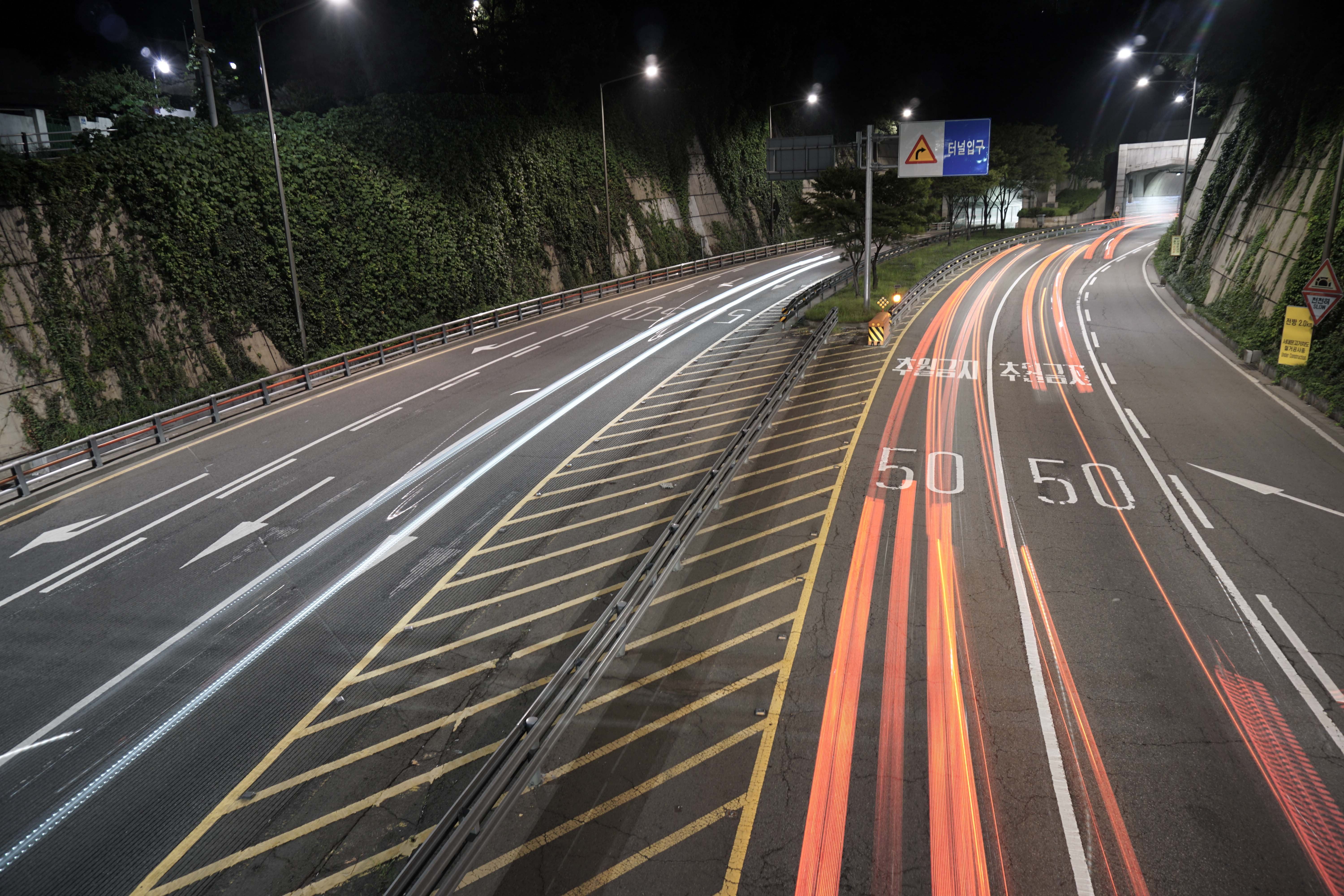 1-142, Seoul, South Korea